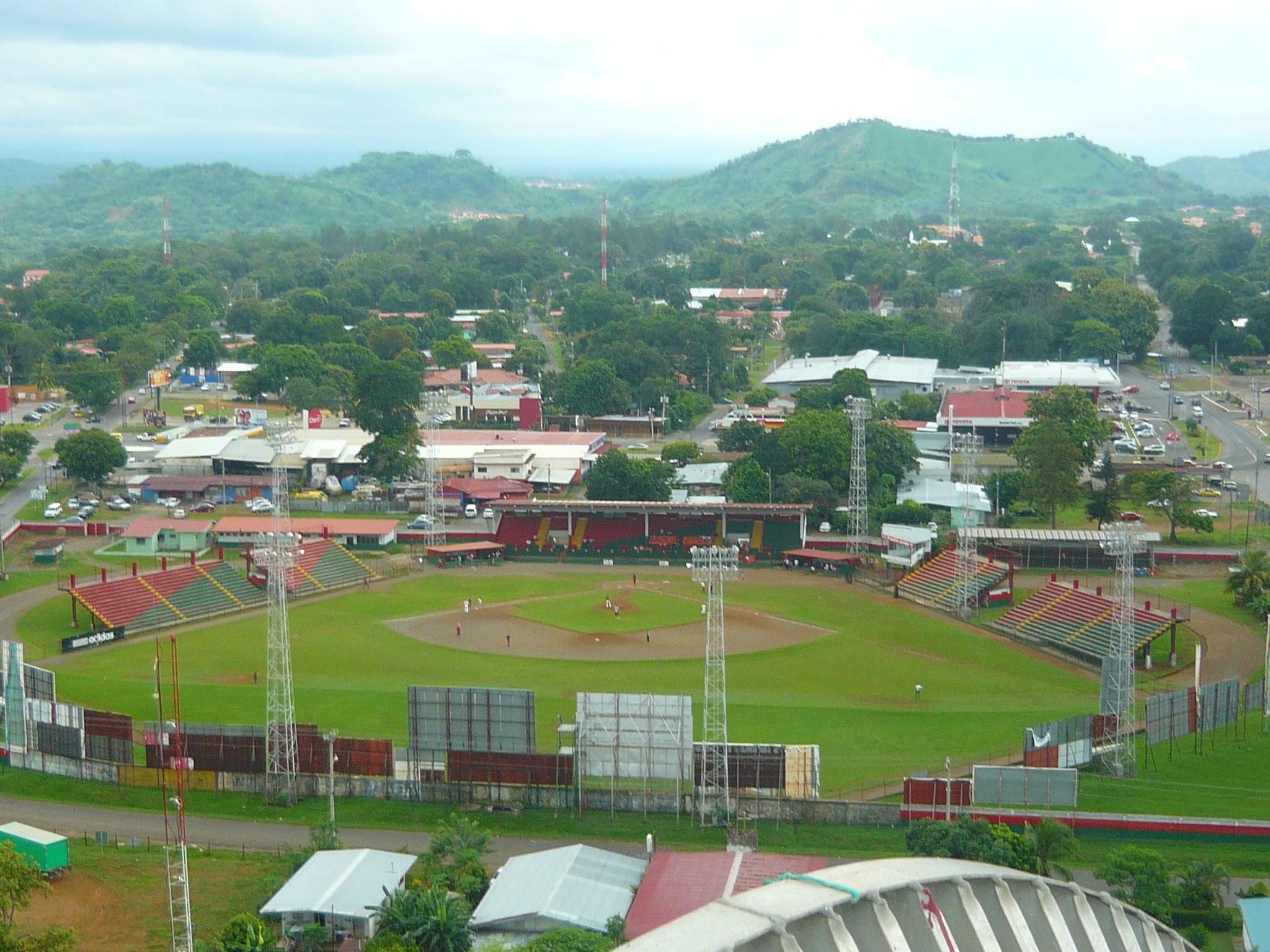 View from sky of Kenny Serracin Stadim, David, Chiriqui, Panama